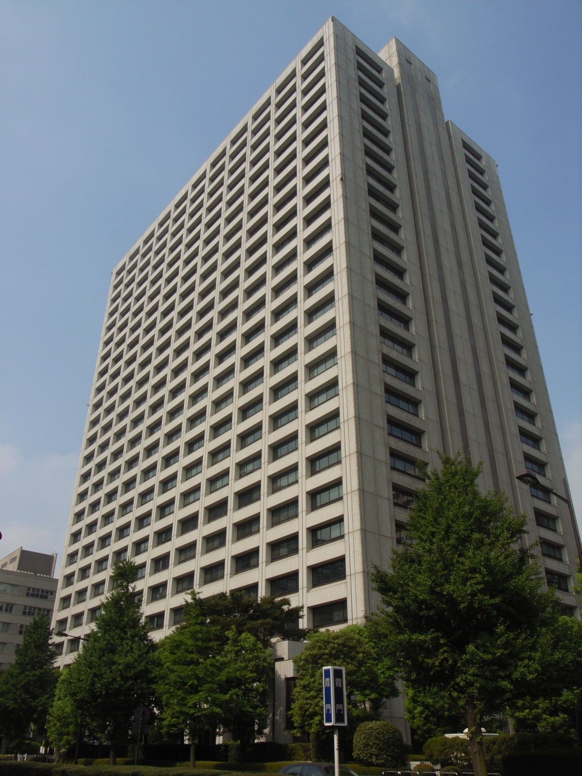 Government Office Complex No5, Kasumigaseki, Tokyo, Japan / 中央合同庁舎5号館